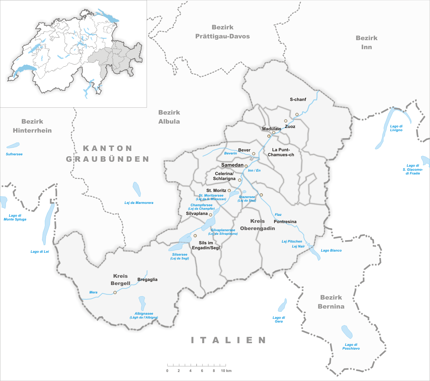 Municipality in the District of Maloja Artist: Tschubby